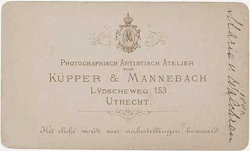 Portrait of Marie van Walcheren. photograph. Ca. 10.5 × 6.5 cm. The Hague, The Netherlands Institute for Art History, collectie Iconografisch bureau.